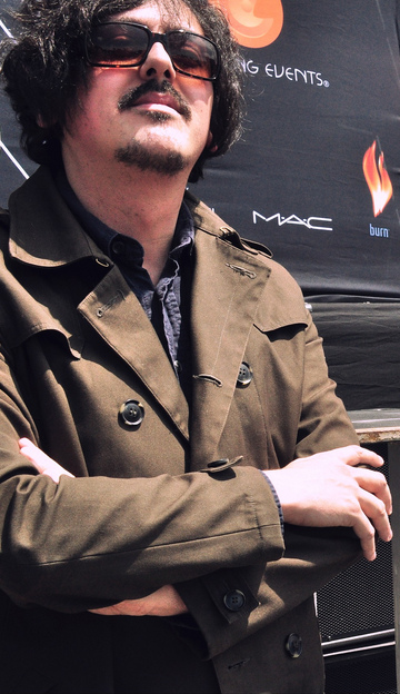 Ladytron @ Teatro Chino (Six Flags Mexico)-Press Conference